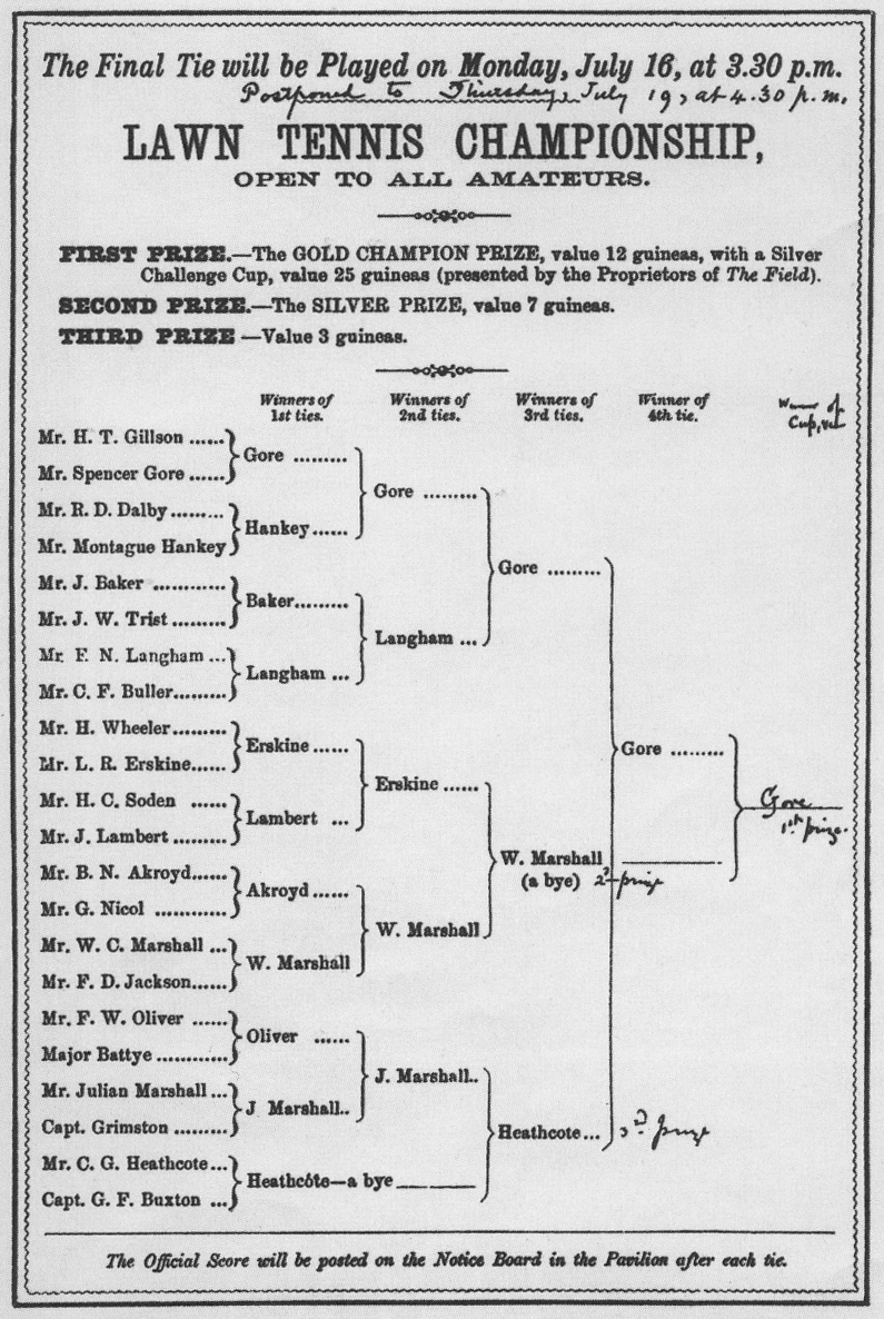 Program of the first Wimbledon Championship in 1877.